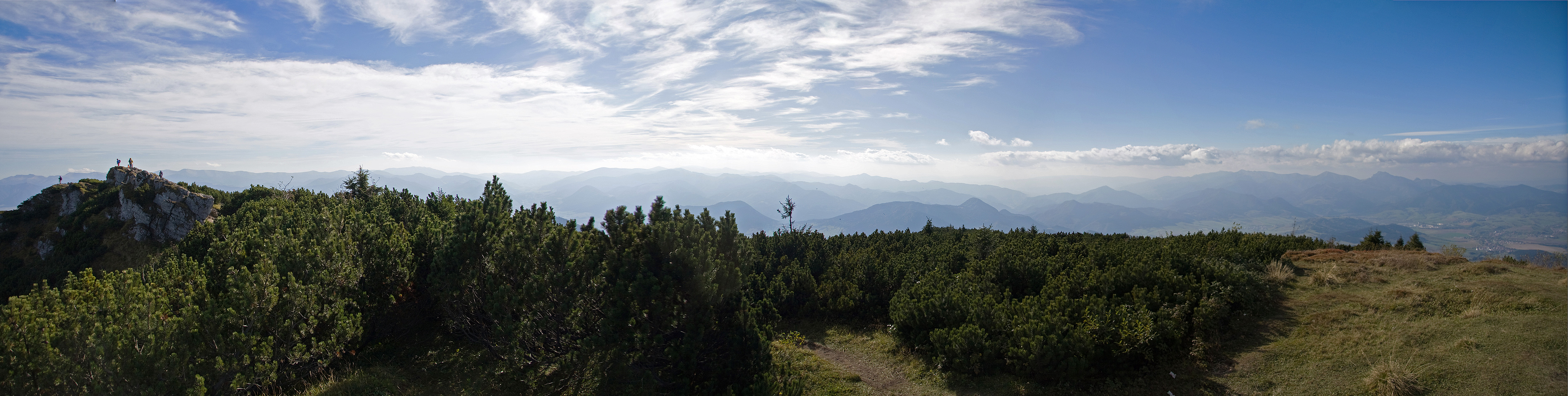 Wide view from Velky Choc Slovawkia - SE - S - SW